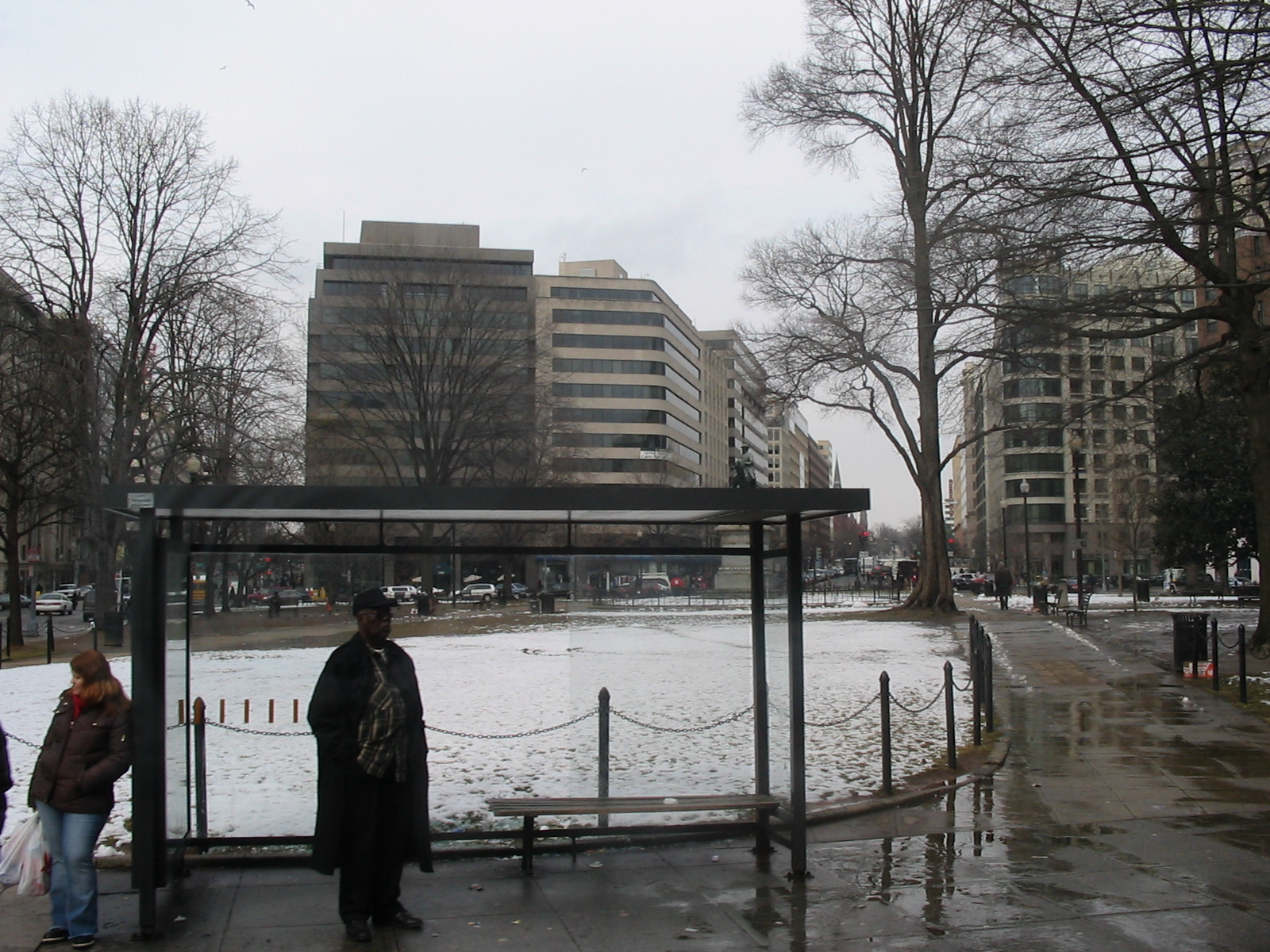 Image taken by me for Wikimedia commons from a tourist trolley in 2007 in DC